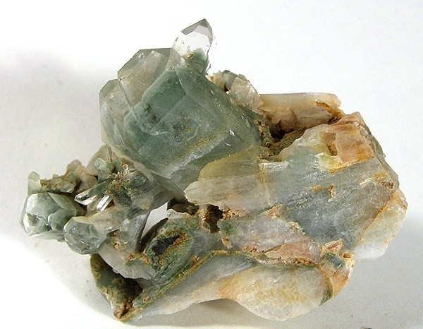 Quartz, Chlorite Locality: Placerville (Hangtown), Placerville District, El Dorado County, California, USA (Locality at ) Size: 6.2 x 4.1 x 4.0 cm. At the center of this specimen is a clear, tabular quartz crystal with a sharp phantom inside demarcated by its mossy green chlorite inclusions. Growing across its back is another quartz crystal with a sharp chlorite phantom, but of the typical prismatic form! Old California material, from the collection of noted California collector Charles Hansen.